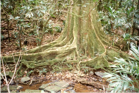 Elaeocarpus angustifolius, Nightcap National Park, Australia